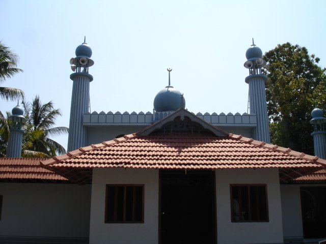 Close up view of Cheraman Juma Masjid mosque in Methala, Kerala, India.